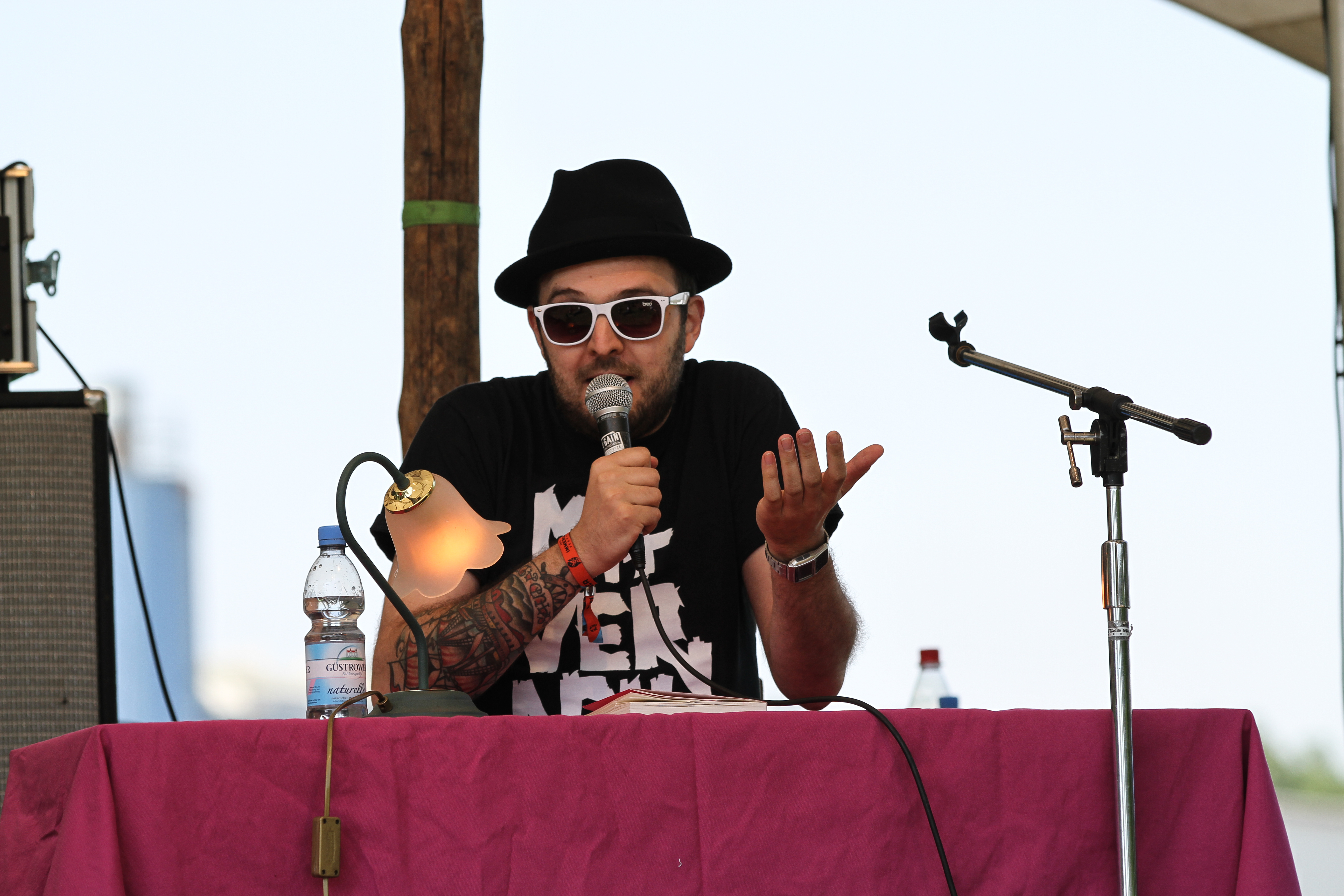 Festivalsommer This photo was created with the support of donations to Wikimedia Deutschland in the context of the CPB project "Festival Summer".